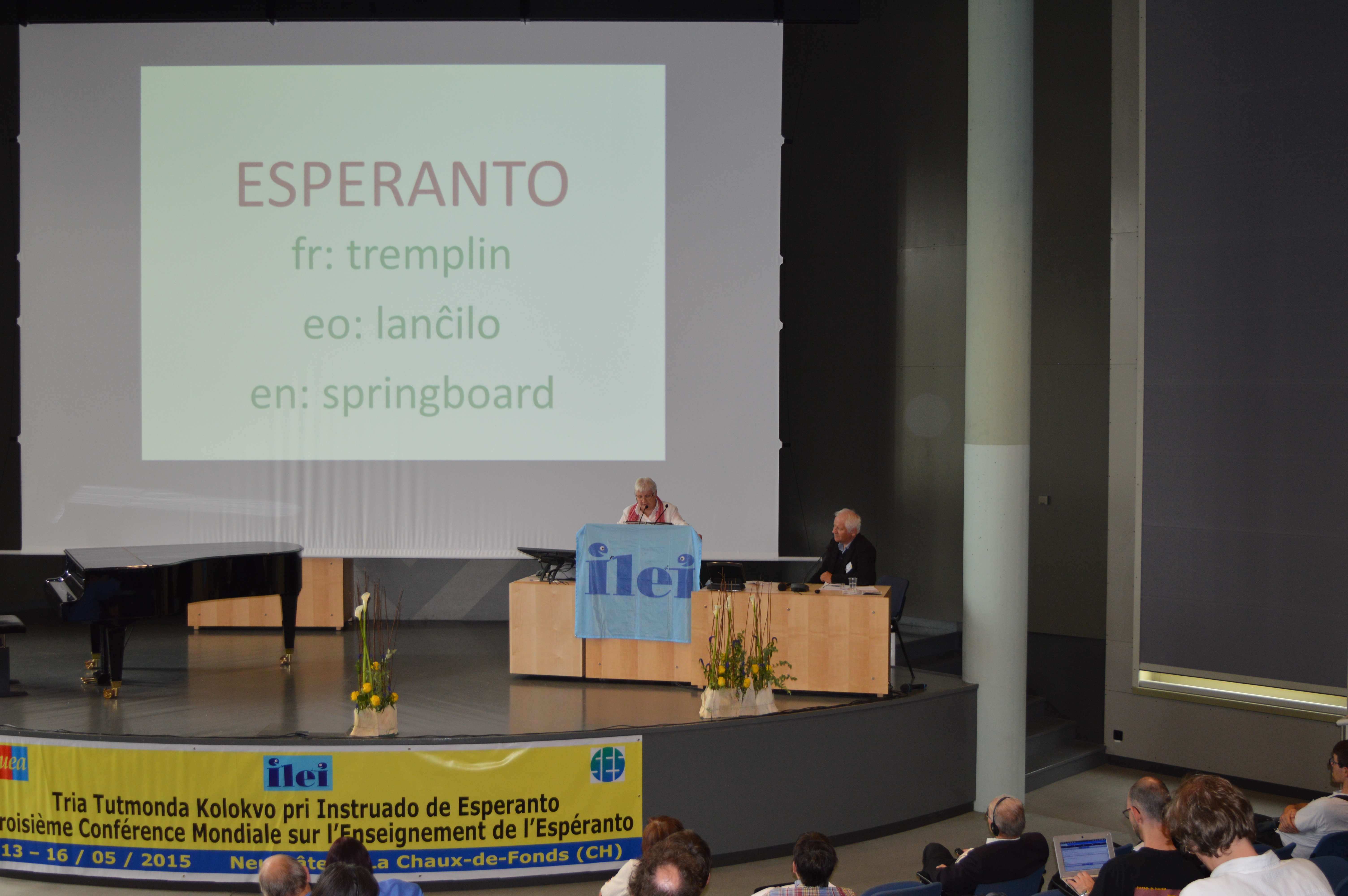 Mireille Grosjean speaks during the third international conference on Esperanto teachting, canton of Neuchatel, SwitzerlandEsperanto: Mireille Grosjean parolas dum la tria konferenco pri Esperanto-instruado, Neŭŝatelo, Svislando